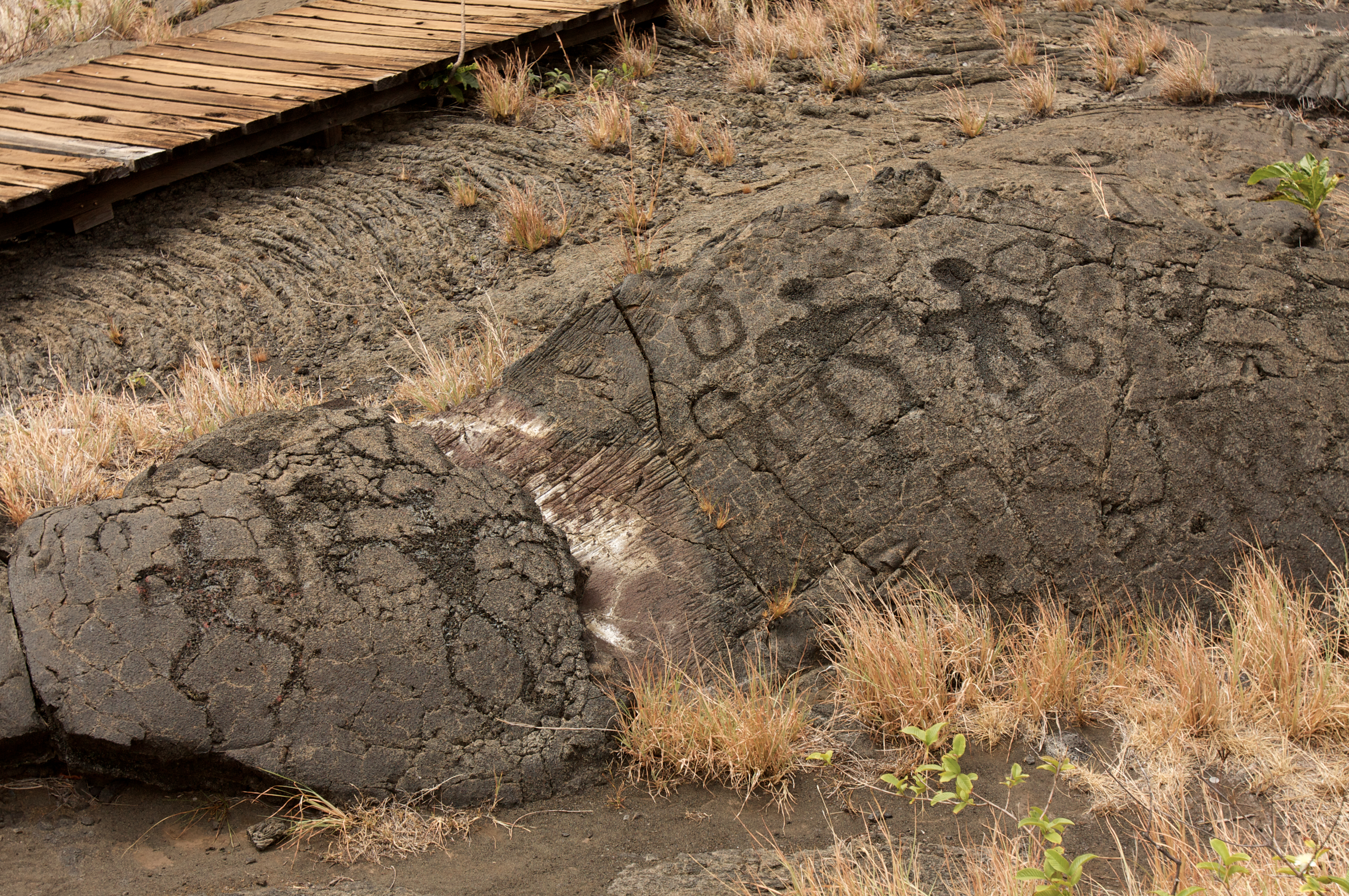 Puʻu Loa Petroglyphs, Hawaii, United States